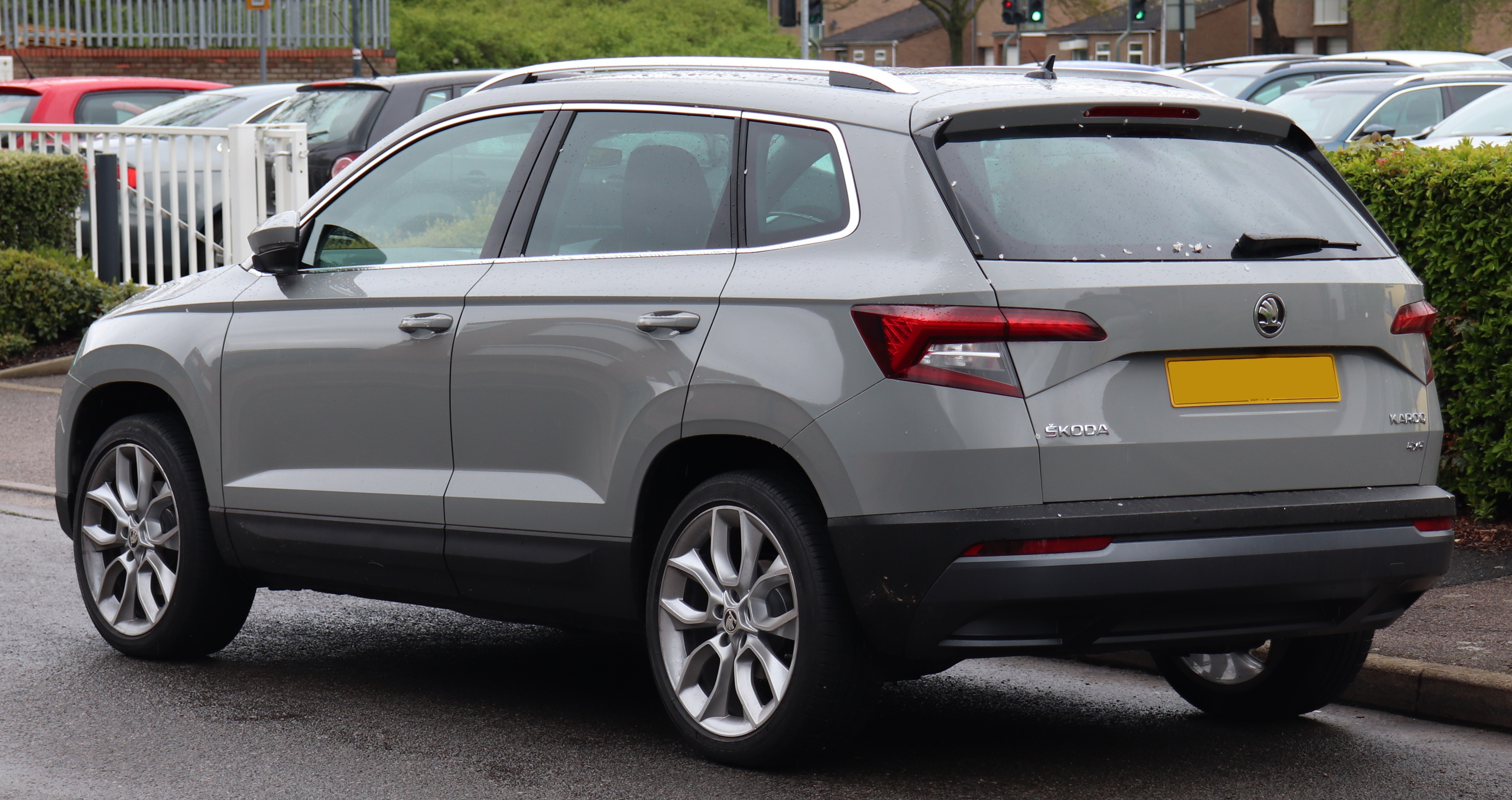 2018 Skoda Karoq Edition TDi SCR 4X4 2.0 Rear Taken in Sydnam, Leamington Spa